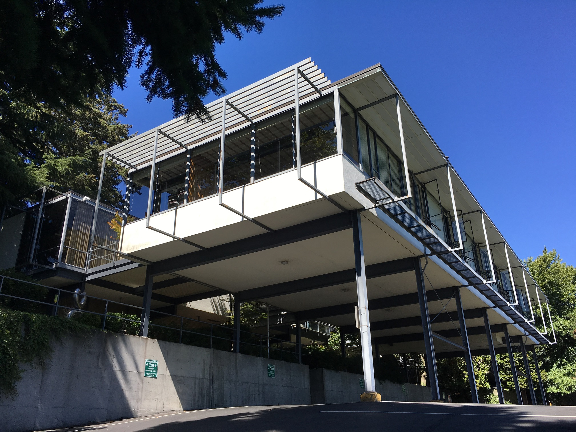 University of Washington Faculty Club Site is currently named the UW Club. This is a 1960 commission of Paul Hayden Kirk and Victor Steinbrueck.